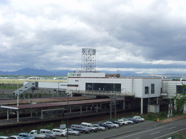 Minami Chitose Station. Chitose, Hokkaidō, Japan.